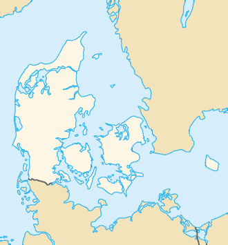 for Template:Location map